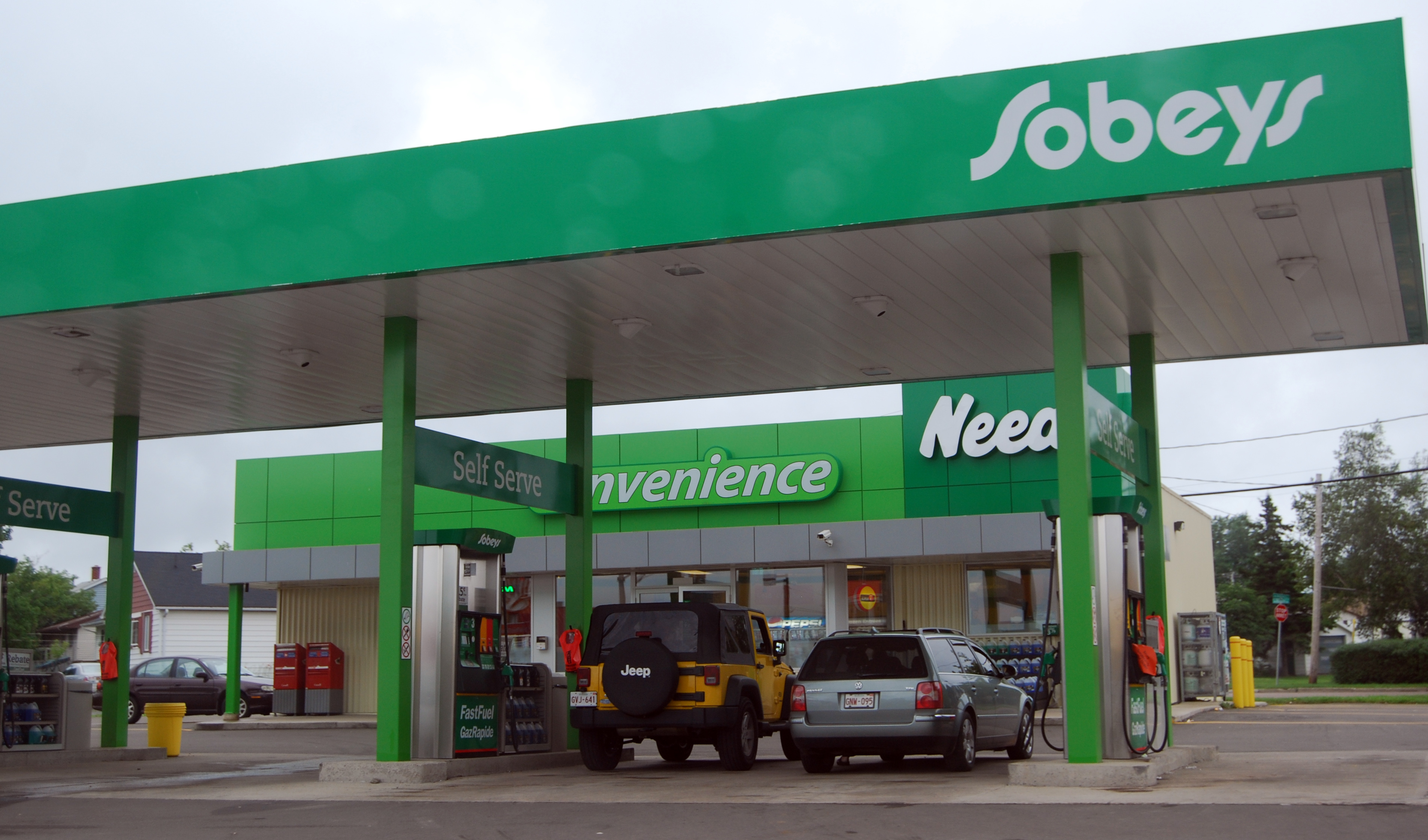 I, Myke Waddy took this photo, Mountain Road Moncton, New Brunswick Canada.